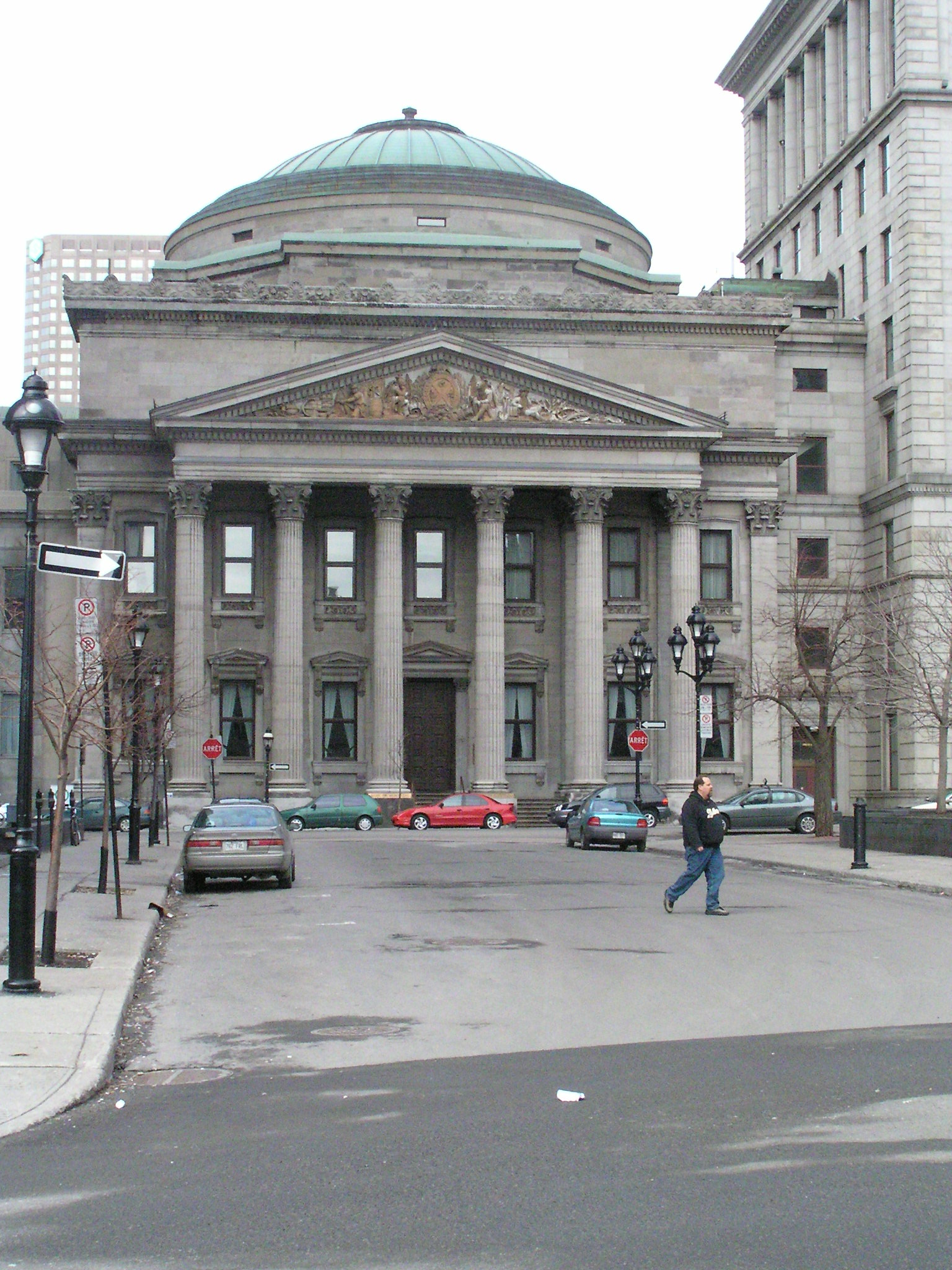 First Building of the Bank of Montreal - sorry about the typo in the filename :-S